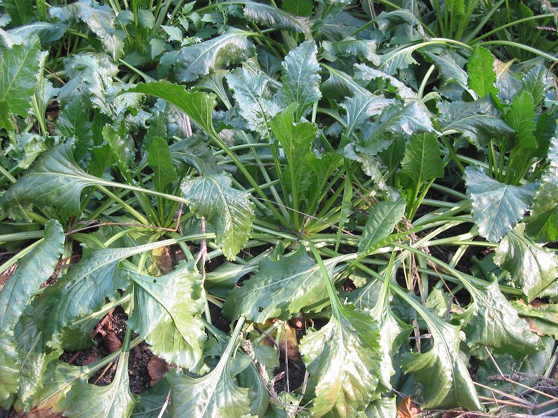 Sugar beet plants.